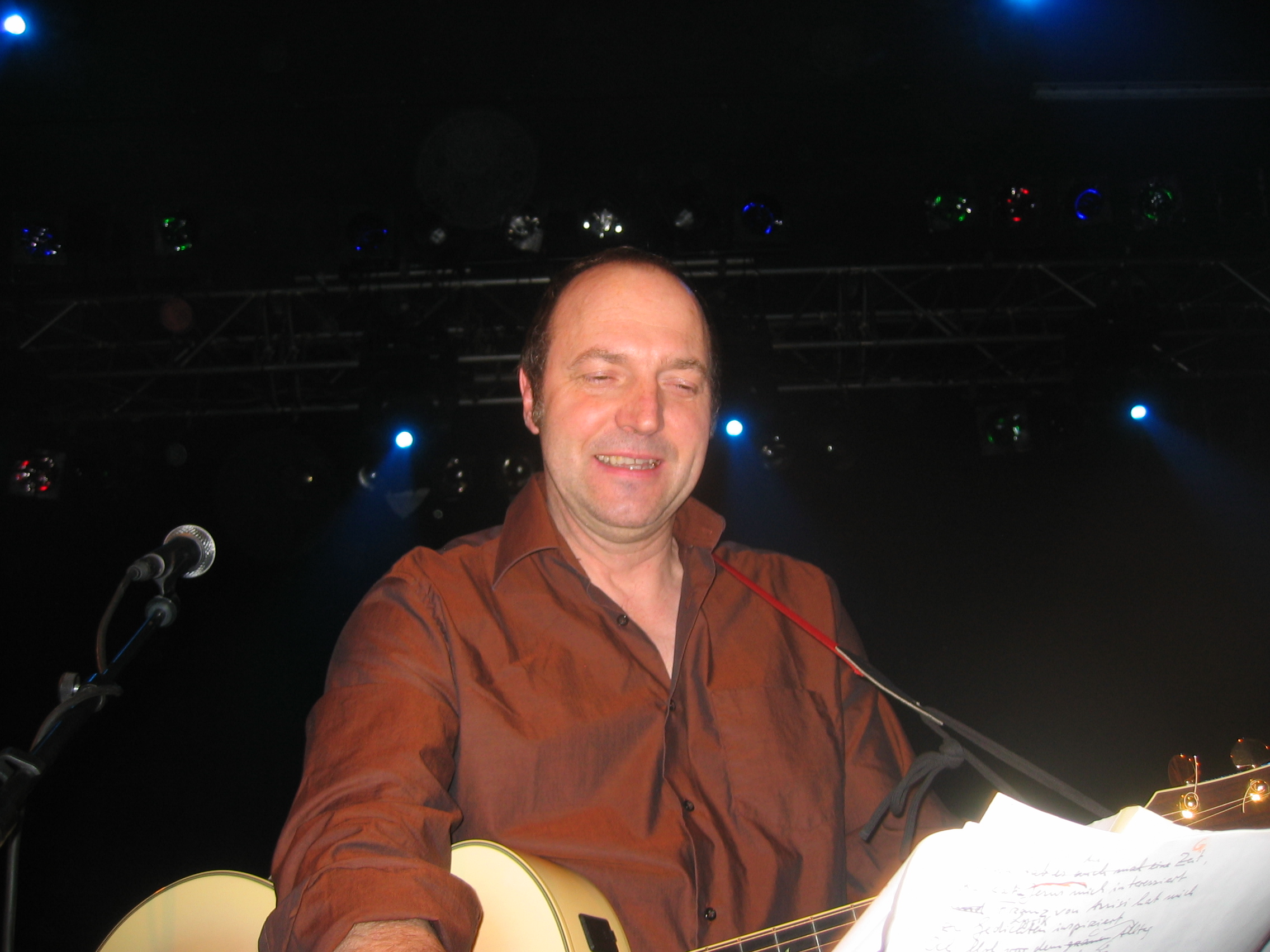 Funny van Dannen in Vienna 2009